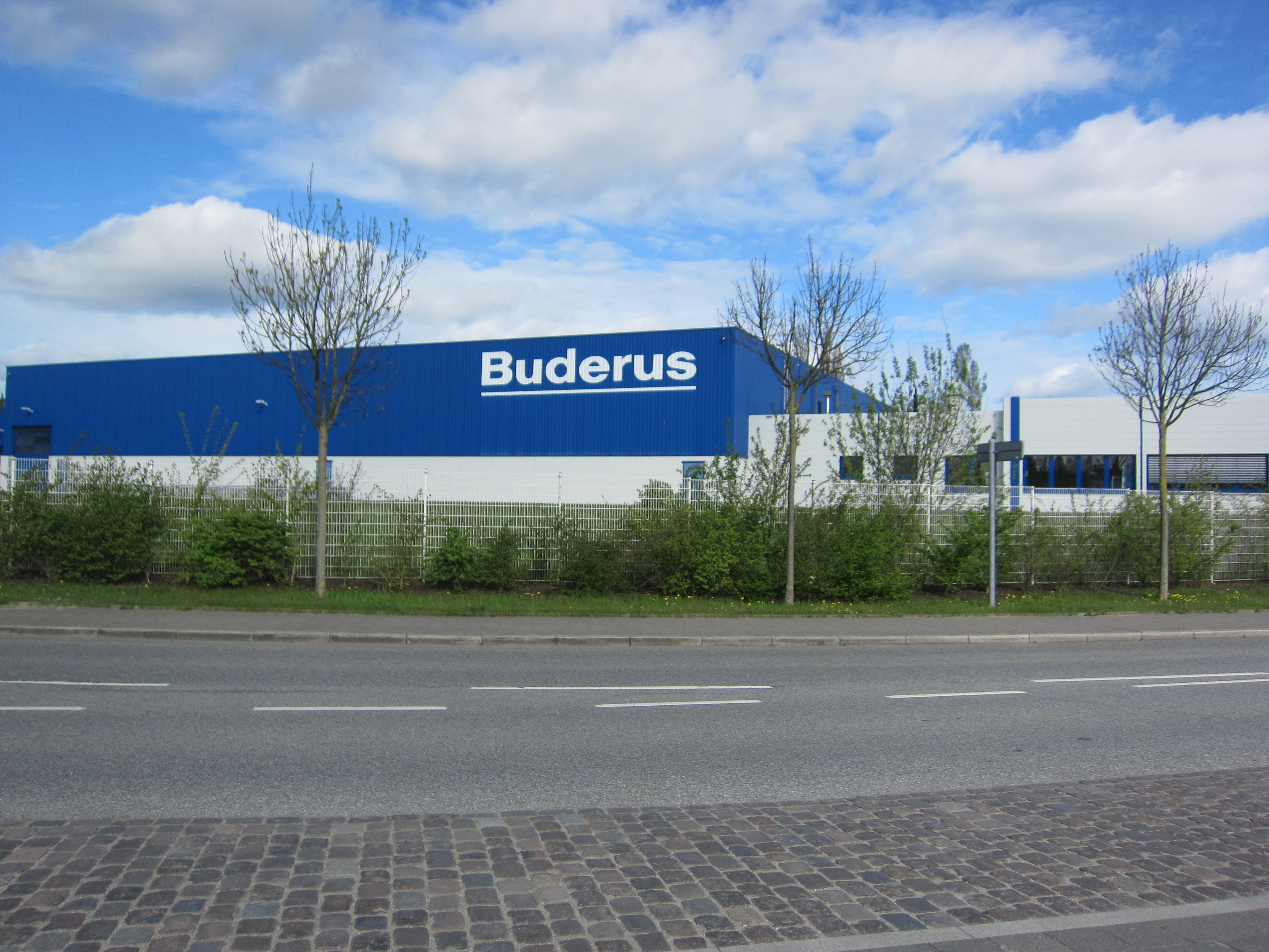 Branch of the company "Buderus" in Kiel-Wellsee